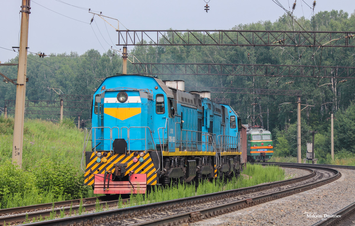 Diesel locomotives TEM7A-0383 and 0394. On the far plane electric locomotive VL10u-791. Zherebtsovo station, Novosibirsk region, Russia